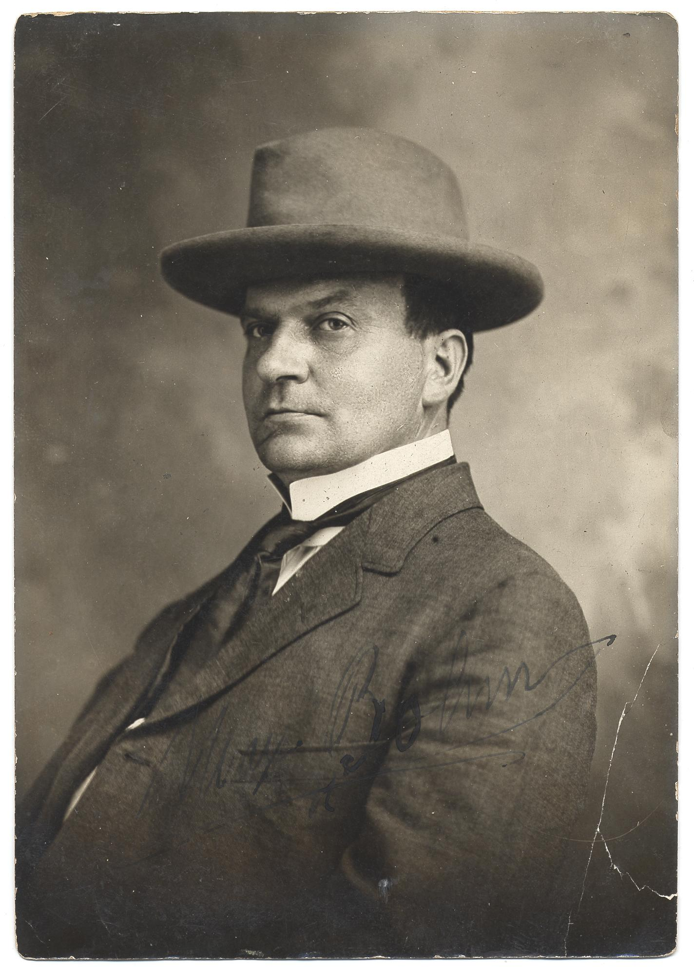 Max Bohm: Postcard portrait of Bohm, wearing a hat. Corner of image is torn. Inscription lower right: "Max Bohm". Annotation on verso (handwritten): "My only available photograph but it will do as it looks like me. Max Bohm." Bohm, Max, 1868-1923 Creator/Photographer: Unidentified photographer Medium: Black and white photographic print Dimensions: 13 cm x 9 cm Date: c. 1900 Persistent URL: Repository: Archives of American Art Collection: Macbeth Gallery Records, c. 1890-1964 Accession number: aaa_macbgall_4633